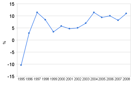 Belarusion GDP grow (1995-~2007), source - estimate for 2008 - (